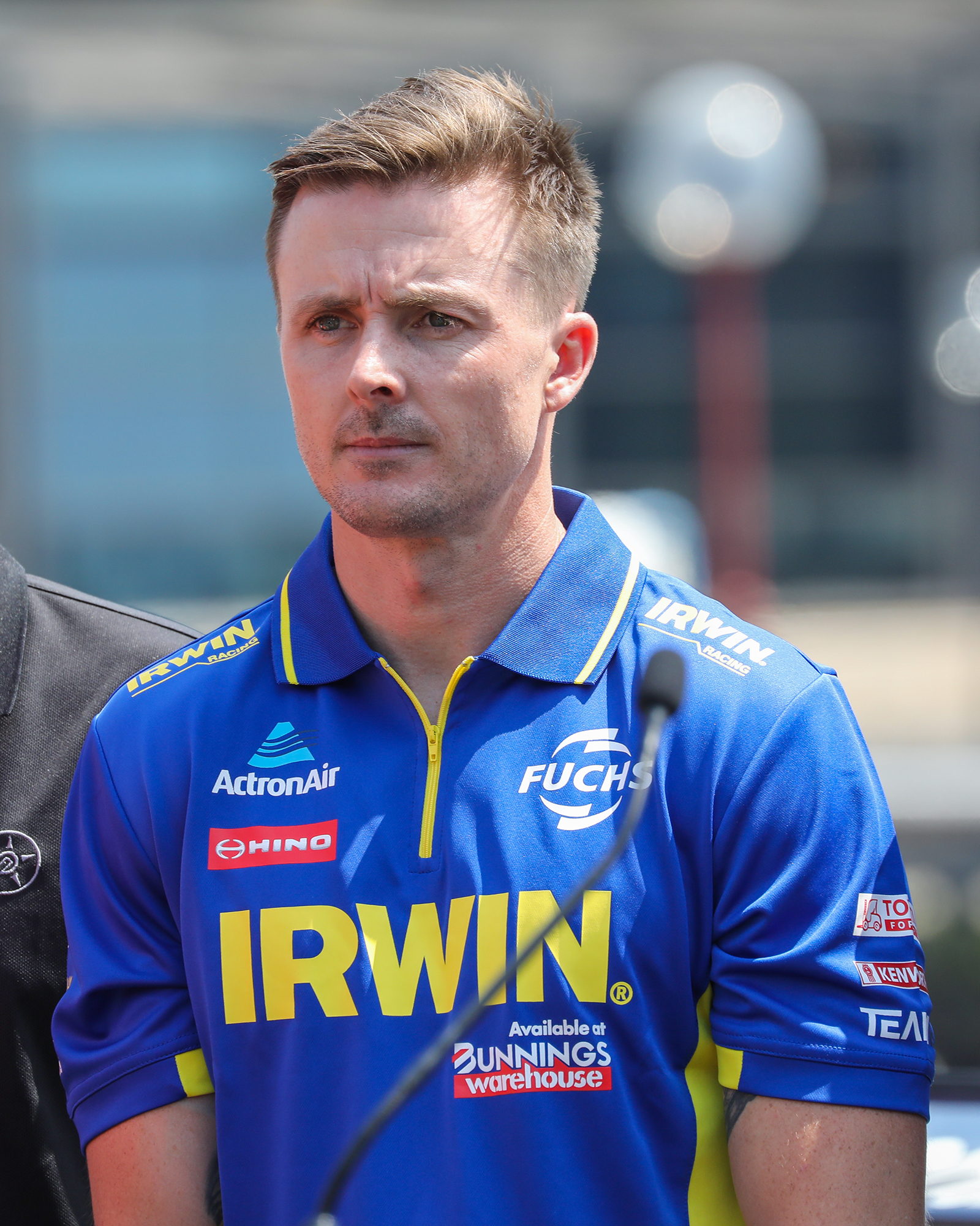 Mark Winterbottom at the 2020 Supercars season launch